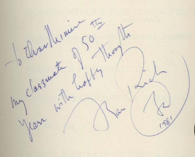 autograph of Frances Rich